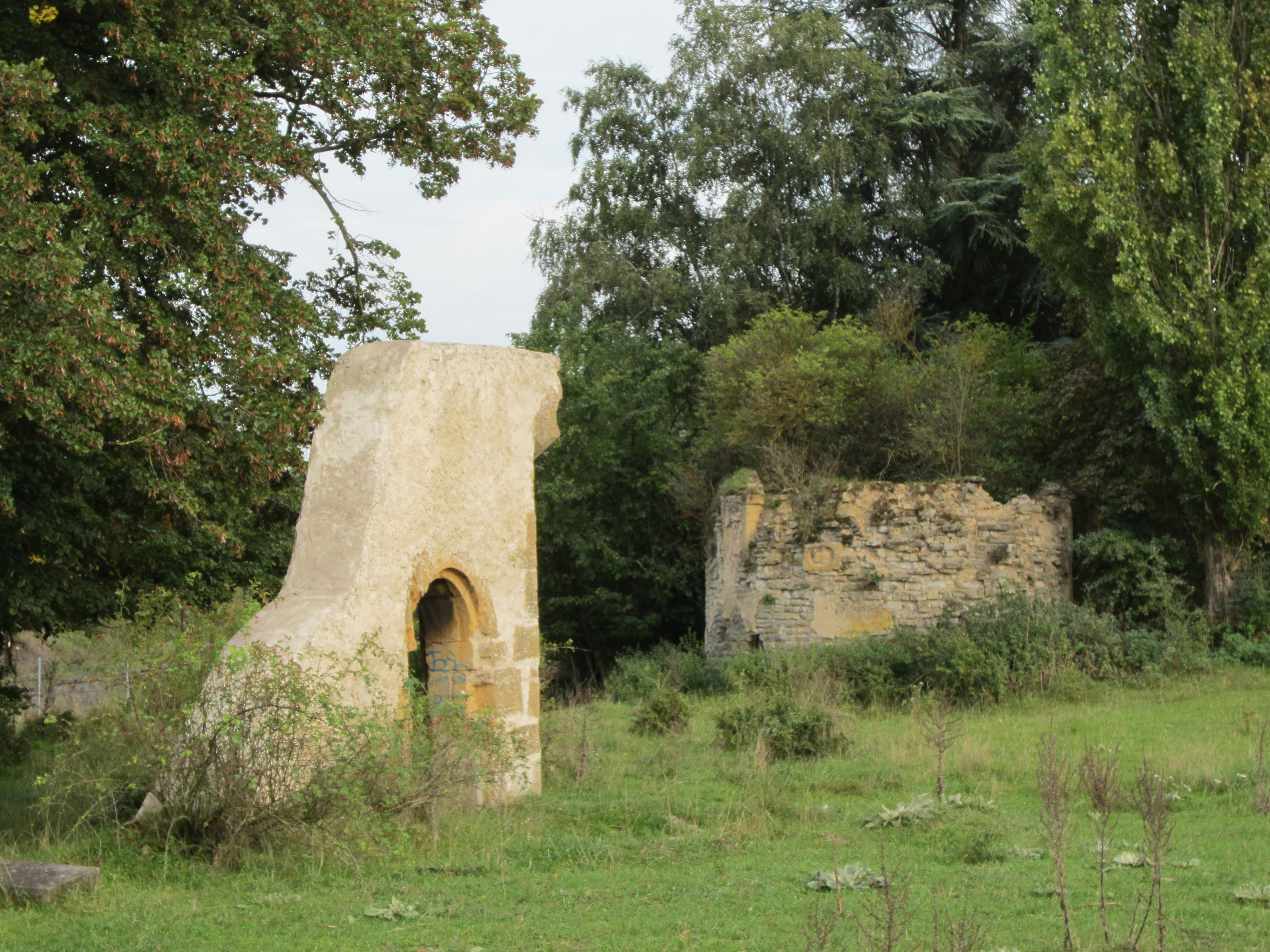 Description chateau Horgne Montigny Metz Date2 September 2011Sourcemon appareil photoAuthorAimelaimePermission(Reusing this file) chateau Horgne Montigny Metz